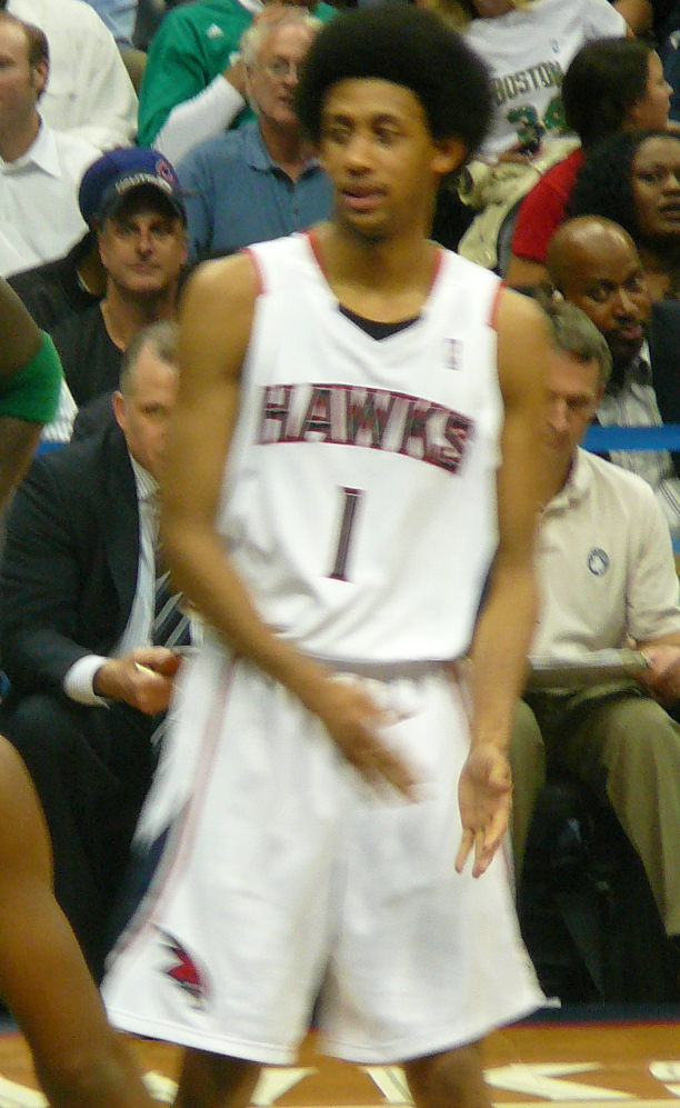 User:Chrisjnelson agreed to license this image of Josh_Childress.jpg under a free attribution license.